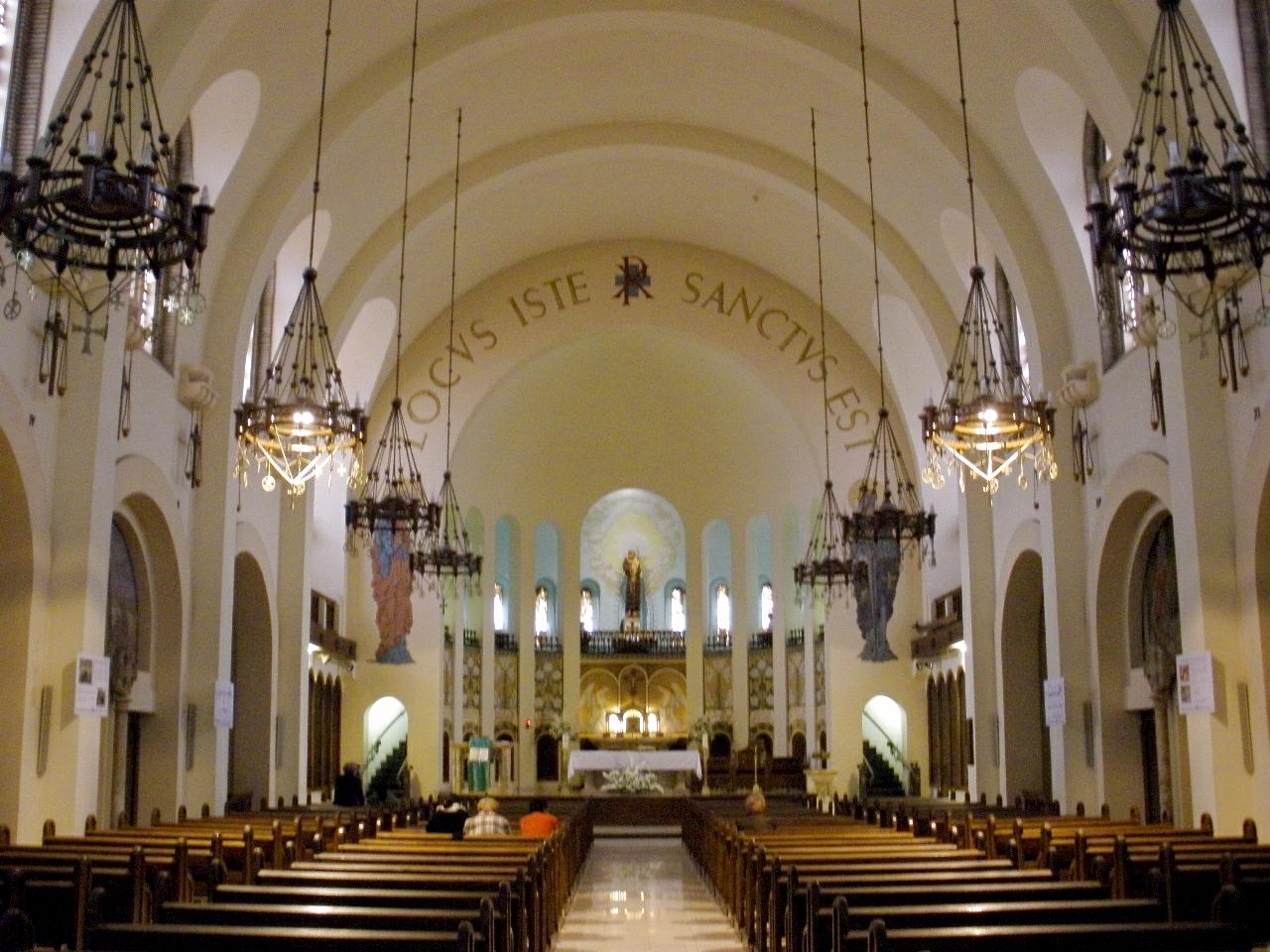 Iglesia de San Antonio de Padua y Sacrario Militare Italiano, en Zaragoza (Aragón, España)